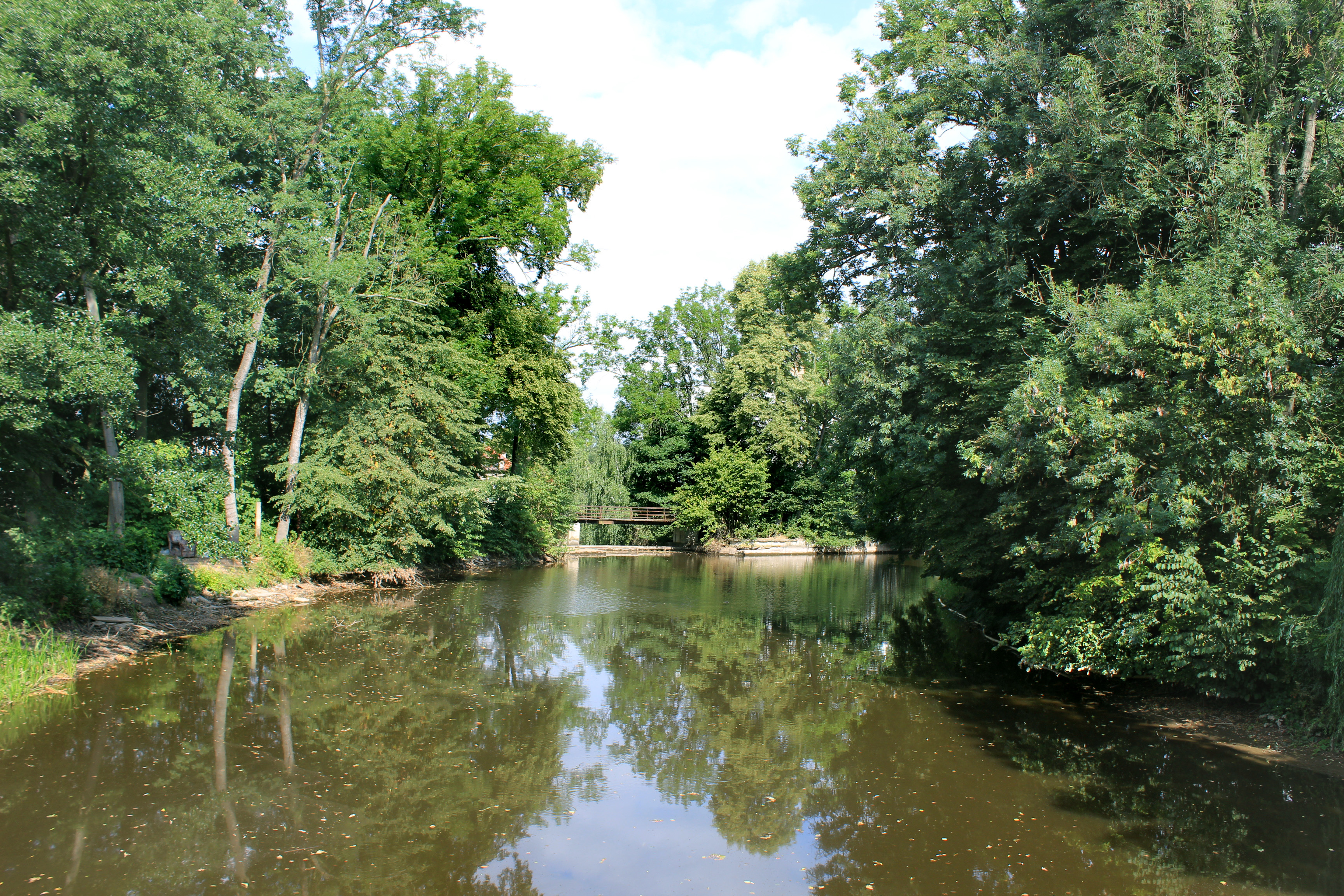 Černá struha river in Bašta, part of Starý Kolín, Czech Republic.